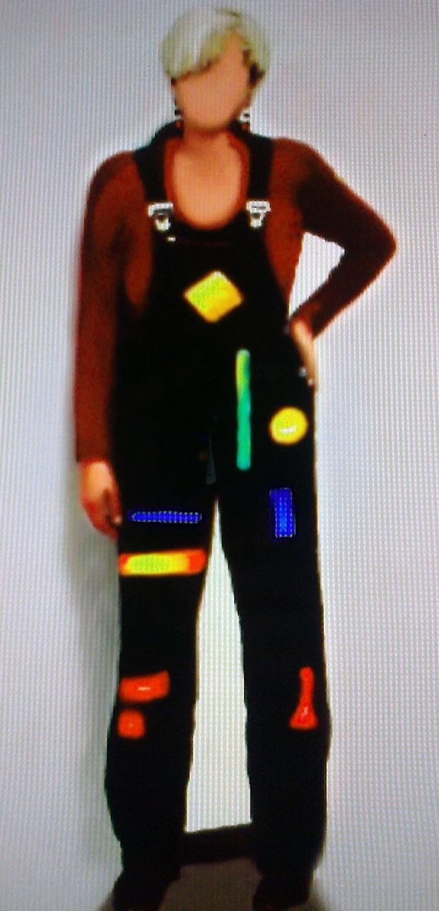 UniForm – logo of the german artist Yolanda Feindura, Bremen